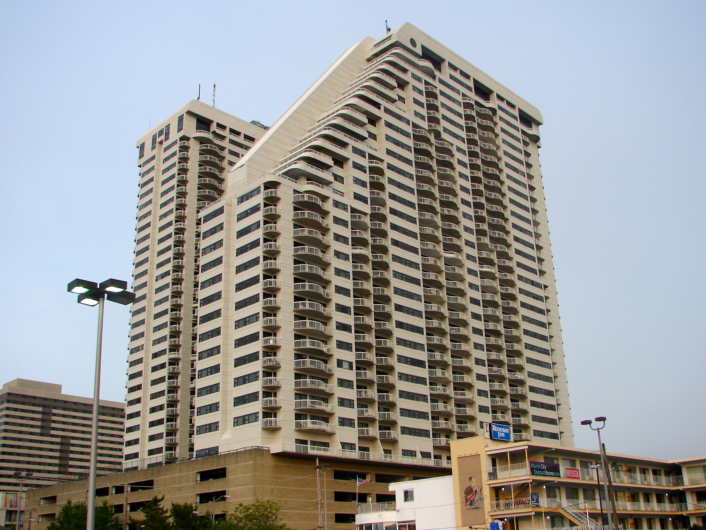 Ocean Club, in Atlantic City, New Jersey at 3101 Boardwalk. Coords 39.352137°N 74.447651°W Height 360 ft (110 m), 34 stories. 1984 twin towers are tallest residential buildings in AC.